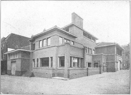 Anonymous. Hotel 'De Dubbele Sleutel', Woerden, the Netherlands [architect: Jan Wils]. c 1919. Photo. From De Stijl, vol. 2, nr. 5 (March 1919): facing p. 58.